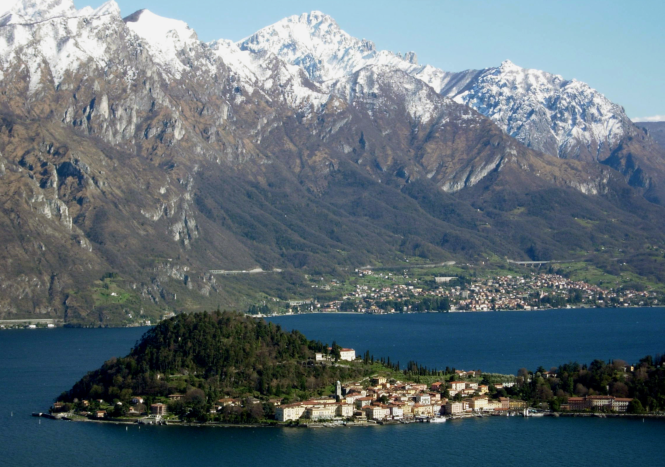 Bellagio at Lake Como, tip of Triangolo Lariano peninsula. View from western shore to south-east with Grigna Mountains in the background.